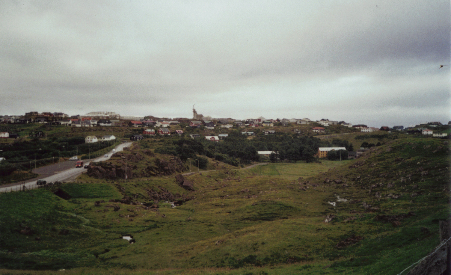 Valley "Lower Hoydalur" and Forest, Tórshavn